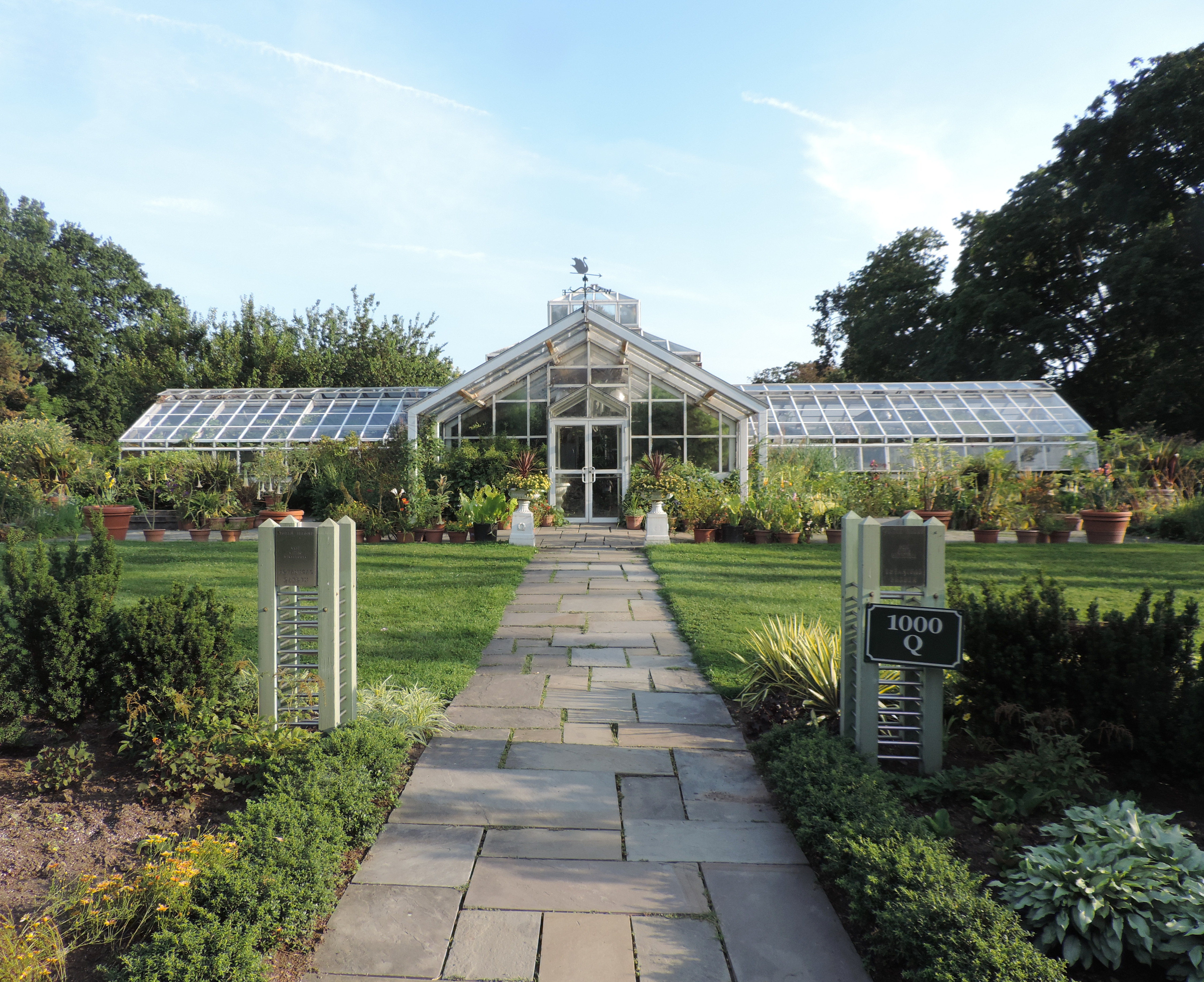 Looking south at greenhouse late in a mostly sunny afternoon.